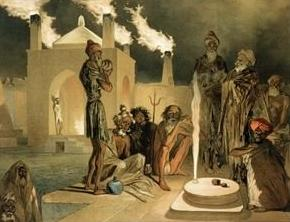 Ateshqah - "Fire Temple" in Baku. Ateseh-Gah, Indians Devoted to the Cult of Fire, Baku